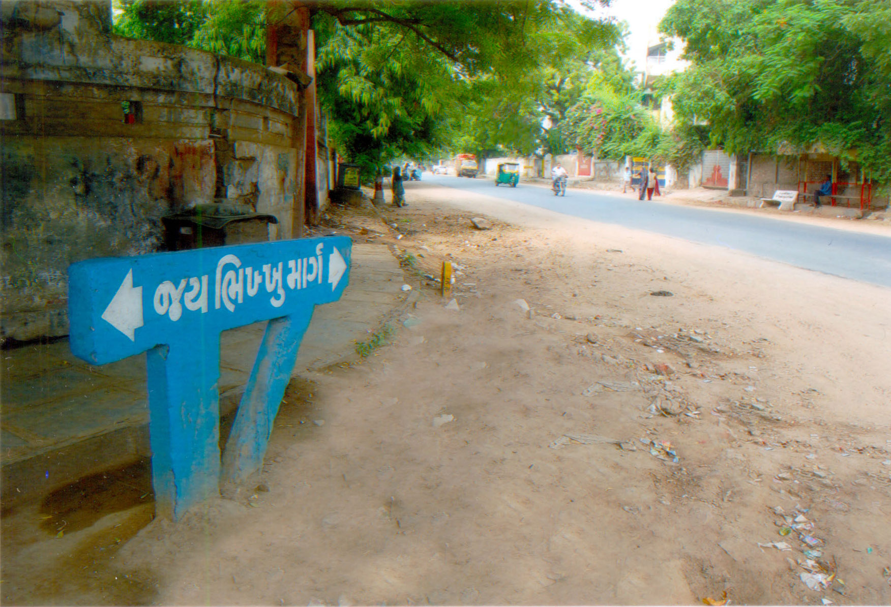 Jaybhikhkhu Road, named after Gujarati writer Jaybhikhkhu